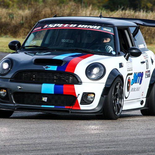 Flying Pigs Racing driver Ben Marouski is shown participating in the 2017 Speed Ring by Motovicity at M1 Concourse, Pontiac, Michigan. Ben's Mini Cooper Racecar participates in the Streetmod FWD class for time attack events including GridLife and NASA.